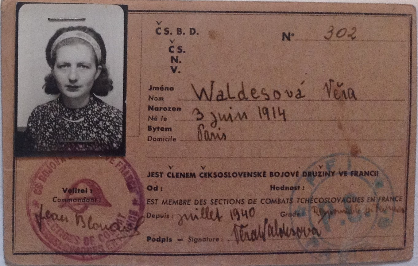 Vera Hromadkova anti-nazi resistance ID